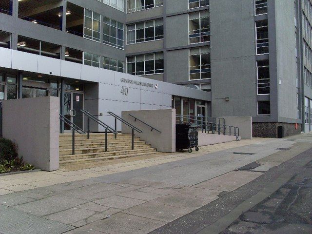 Graham Hills Building, Strathclyde University On George Street.